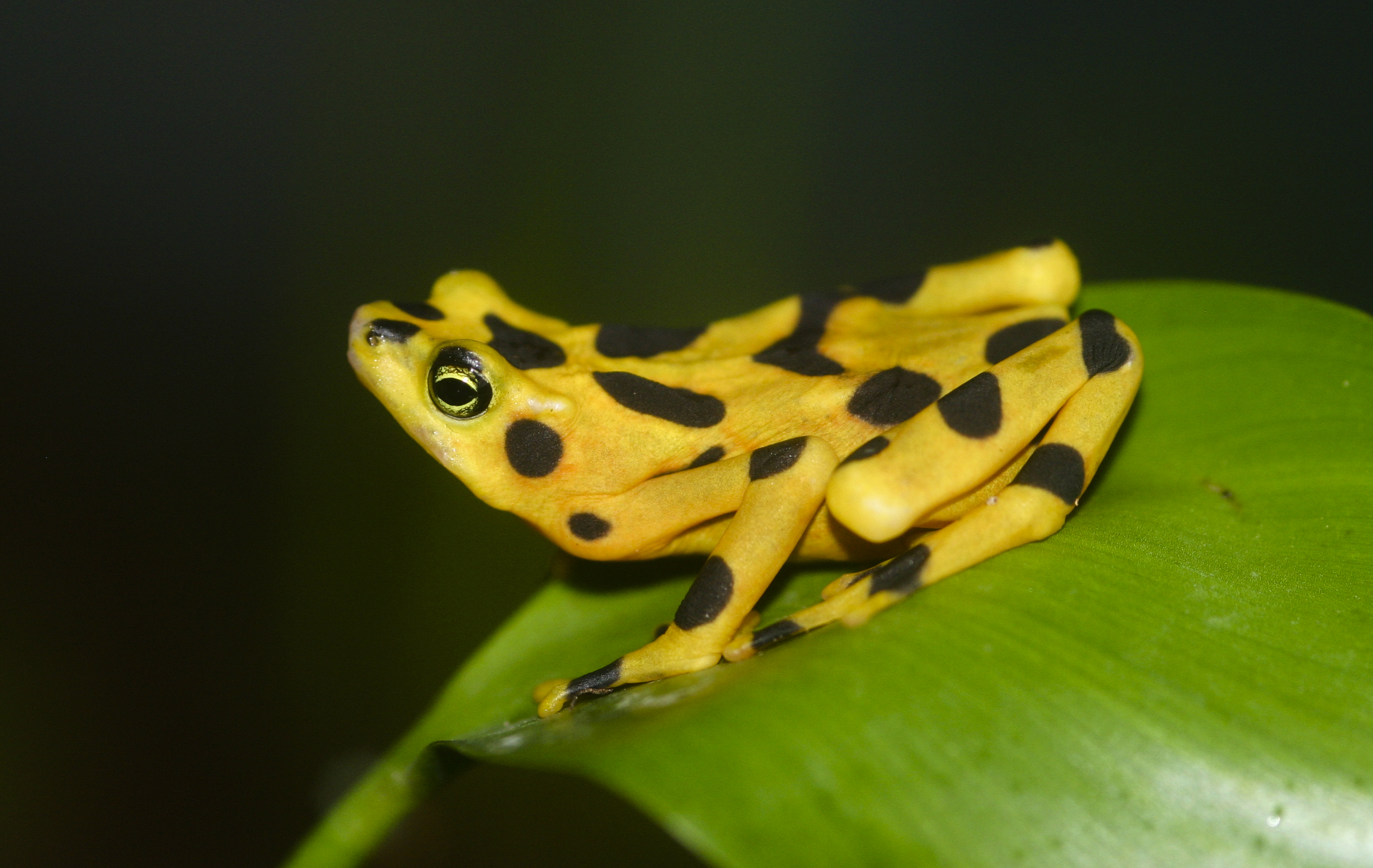 The Panamanian golden frog (Atelopus zeteki) is a critically endangered toad which is endemic to Panama.